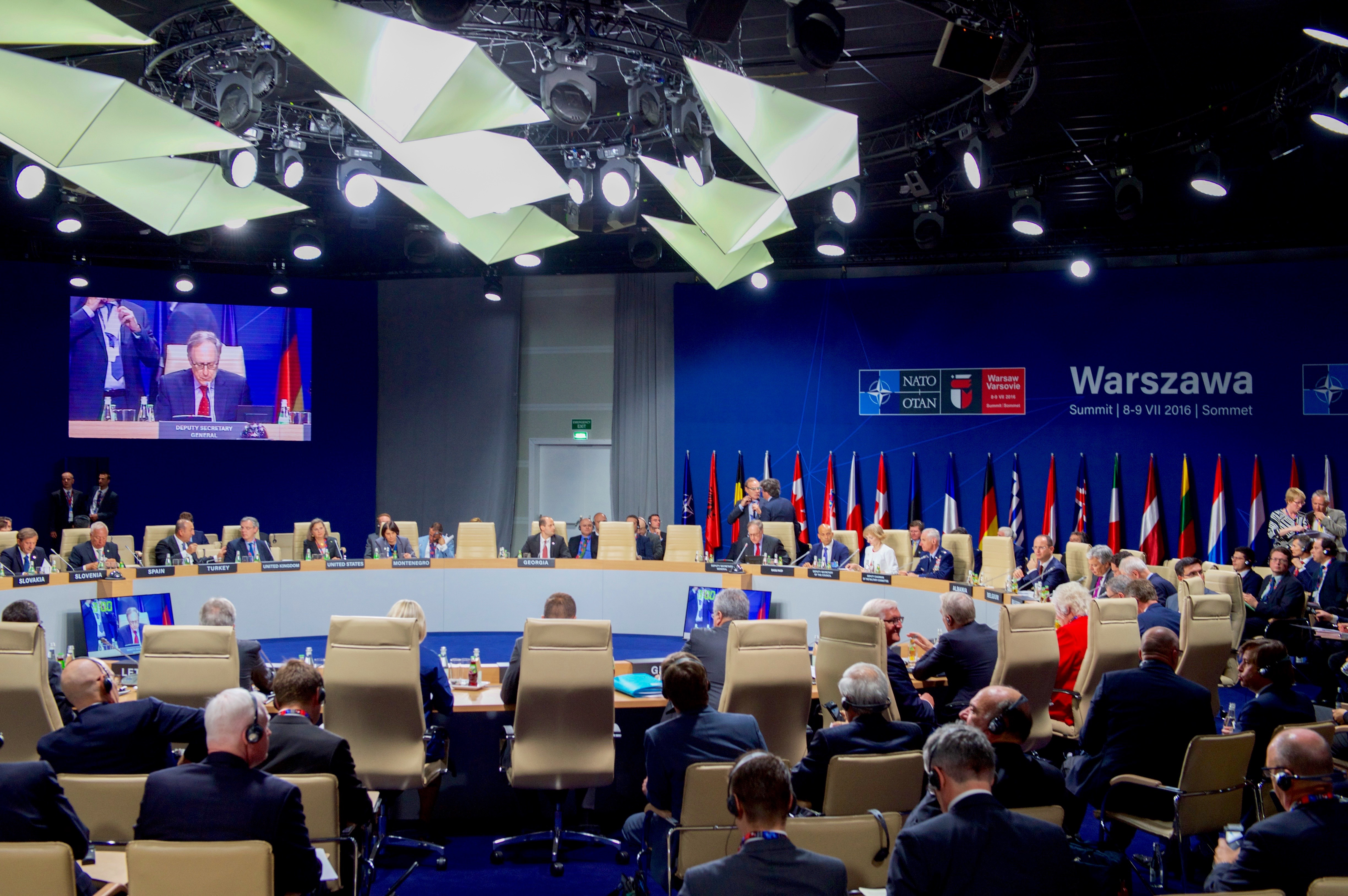 U.S. Assistant Secretary of State for European and Eurasian Affairs Toria Nuland represents the United States on July 8, 2016, during a NATO-Georgia Commission Foreign Ministers meeting held on the sidelines of the NATO Summit - attended by President Obama and U.S. Secretary of State John Kerry - at the National Stadium in Warsaw, Poland. [State Department Photo/Public Domain]